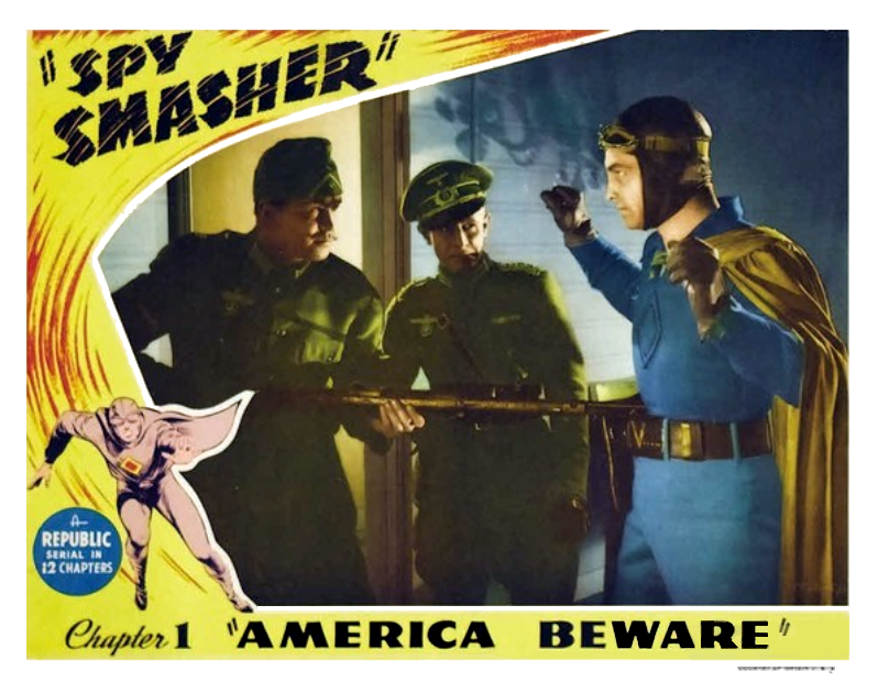 Colored lobby card for Republic Pictures' Spy Smasher featuring Kane Richmond in the title role. Image is assumed to be in the public domain, as no copyright notice is in evidence.